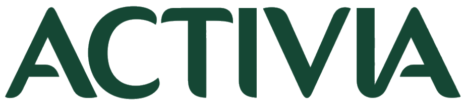 Logo of Activia, a brand of yogurth owned by Grupo Danone.